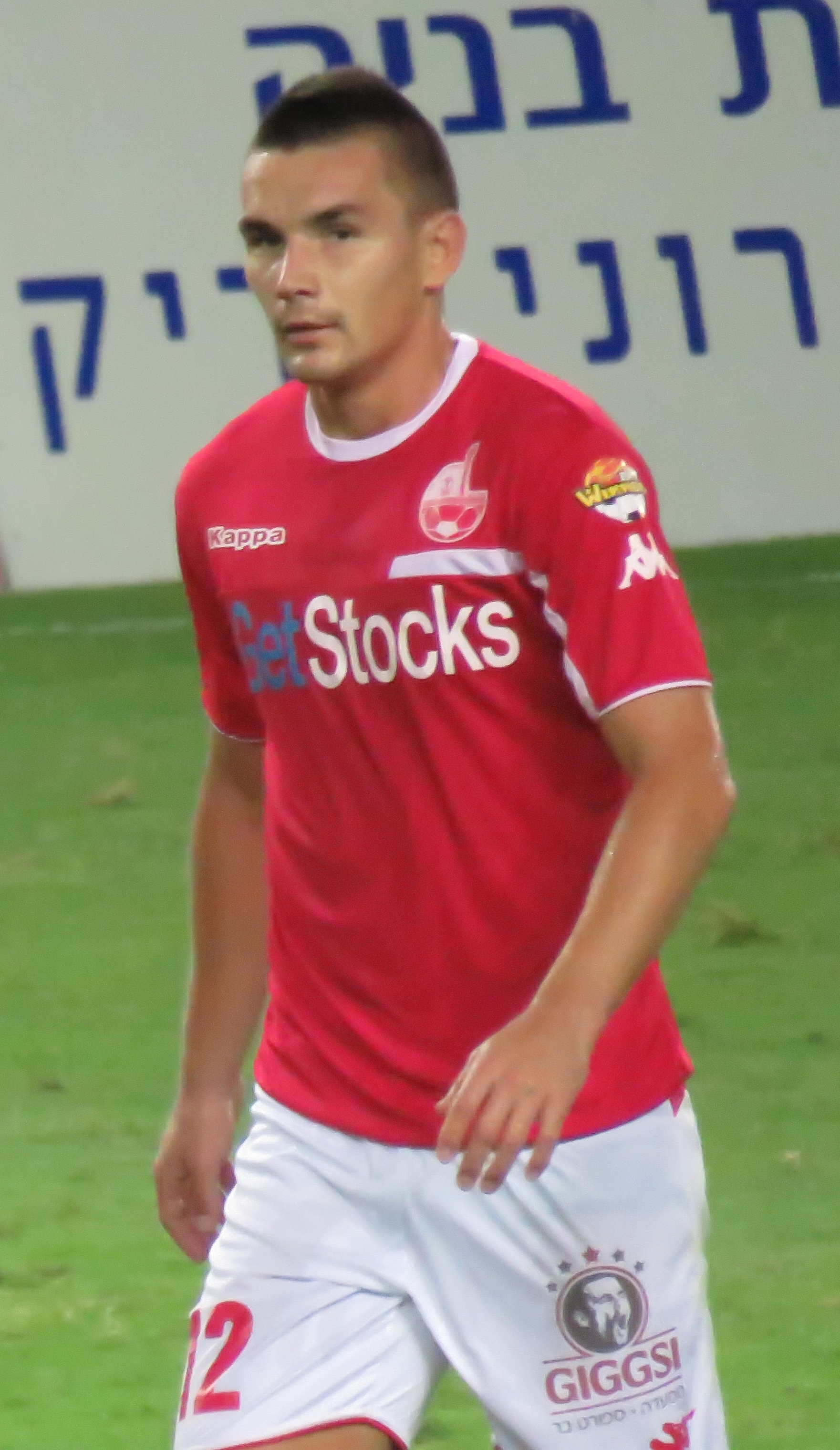 Hapoel Ra'anana vs. Hapoel Be'er Sheva - September 12, 2015